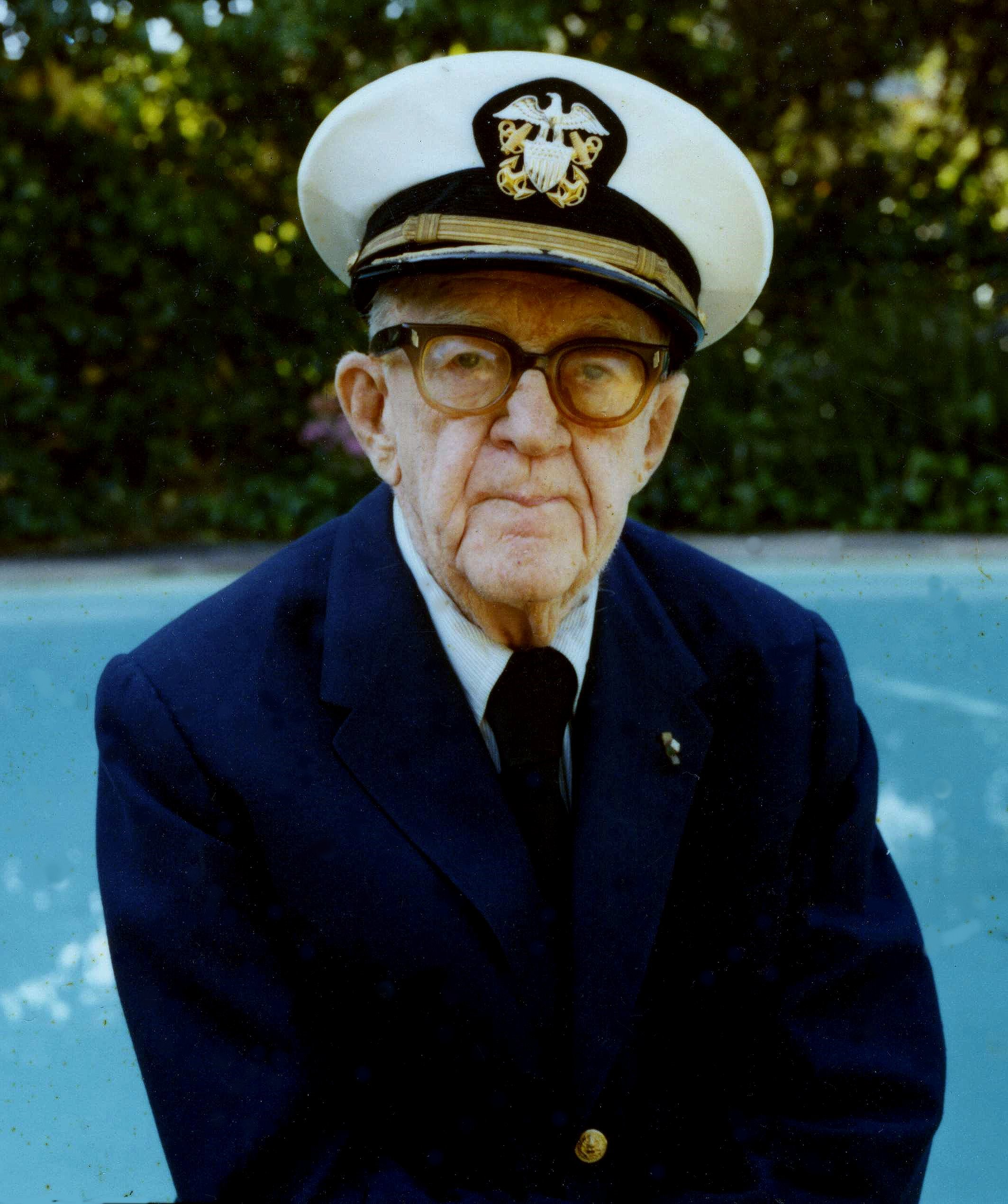 Portrait John Ford